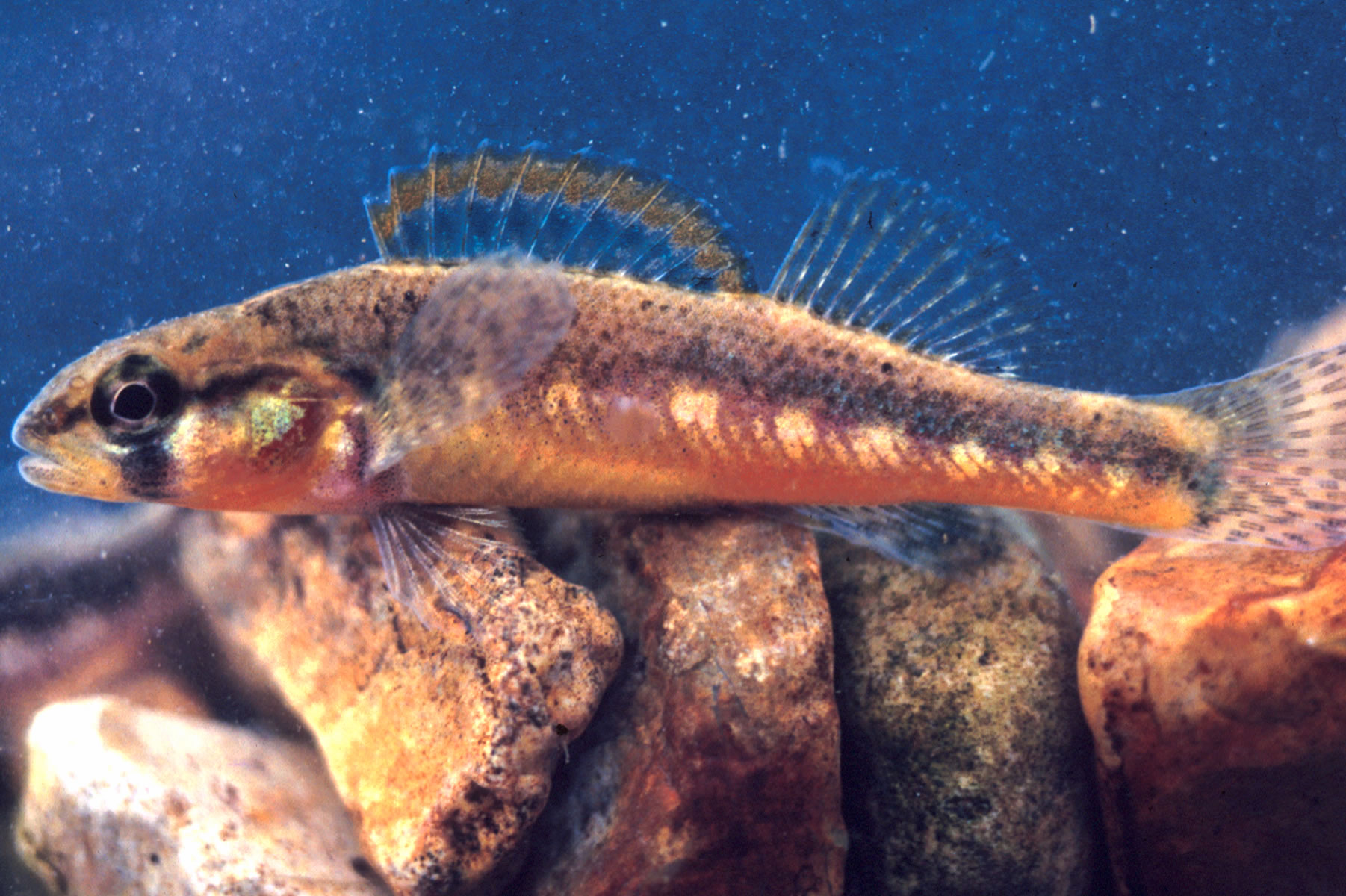 Etheostoma boschungi USFWS photo